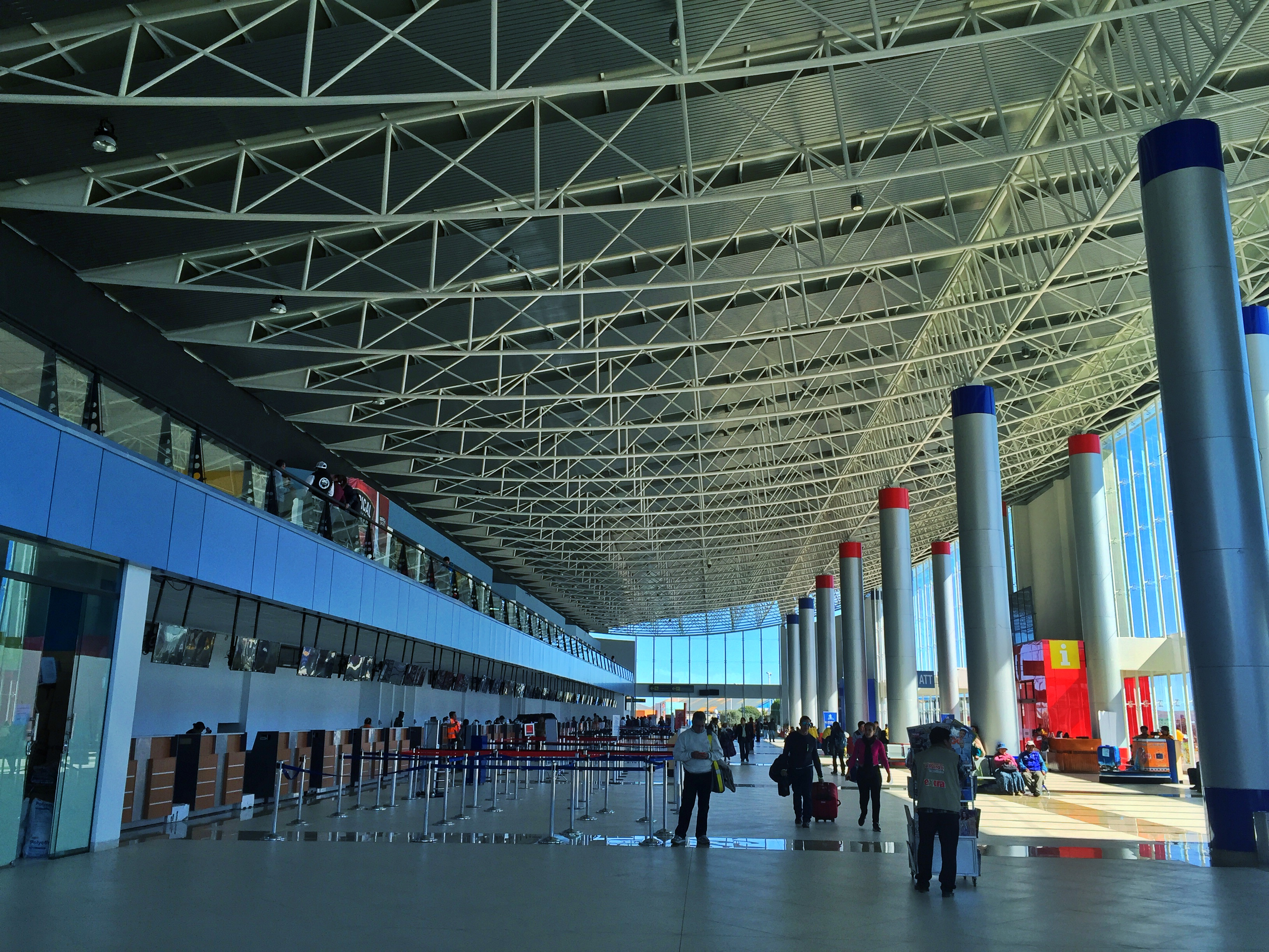 Interior of the new terminal of El Alto International Airport in La Paz, Bolivia.